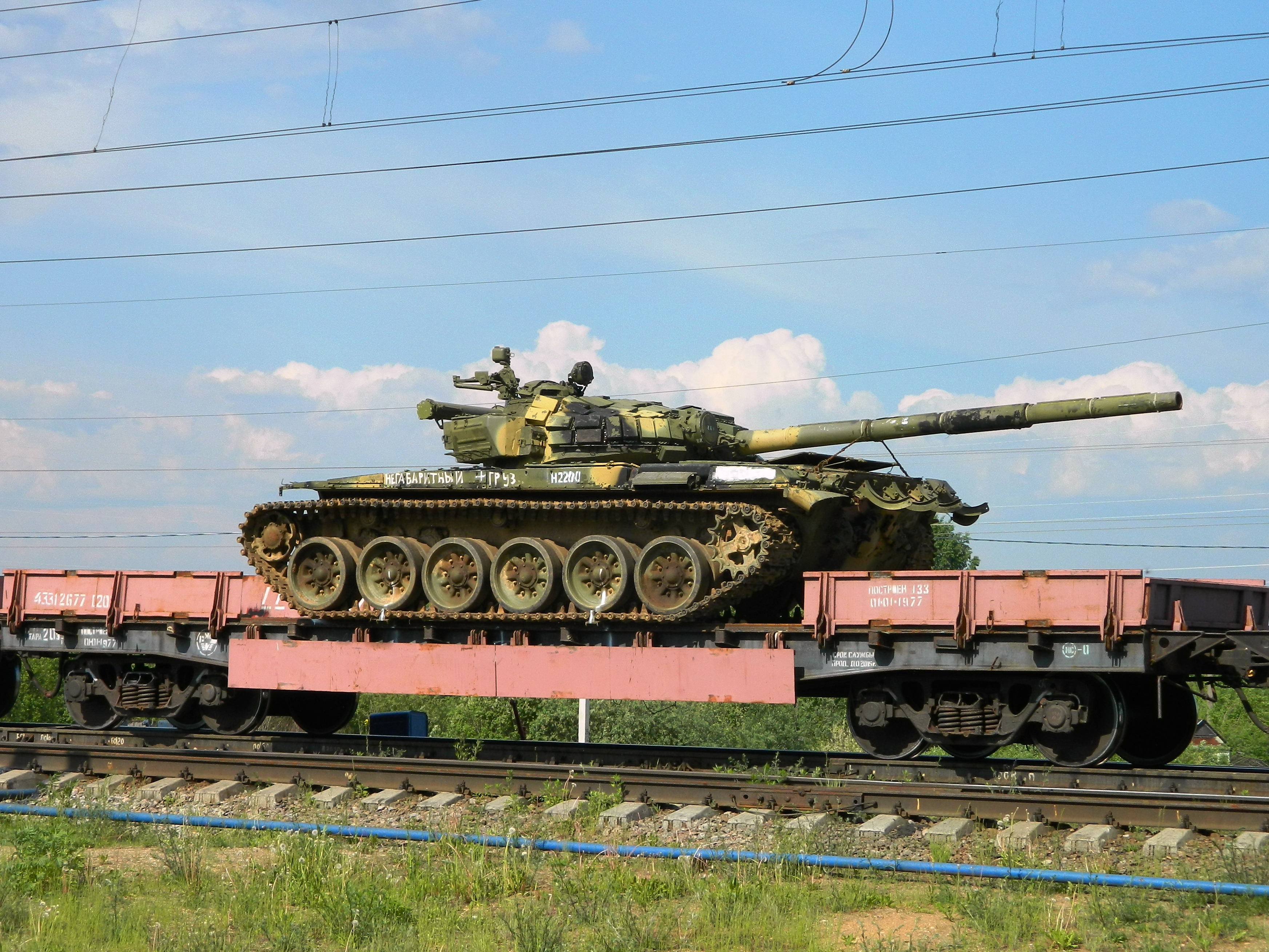 Russia, transporting T-72 by railroad